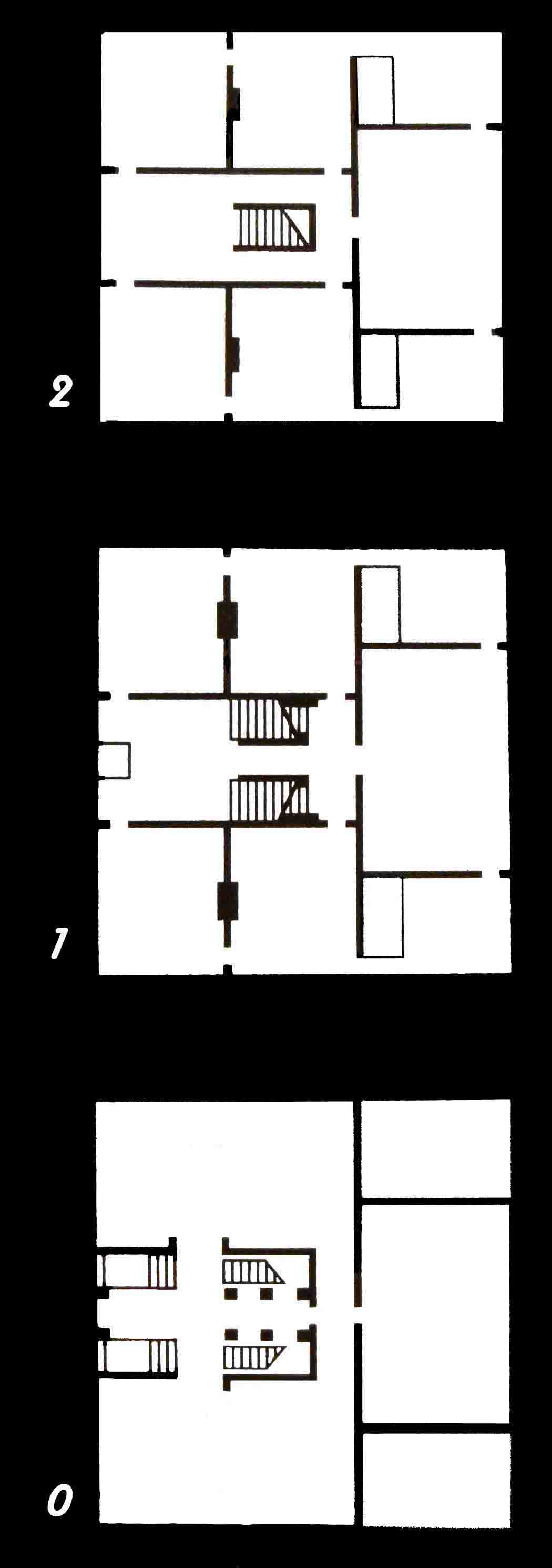 The plan of Mauritshuis in Den Haag